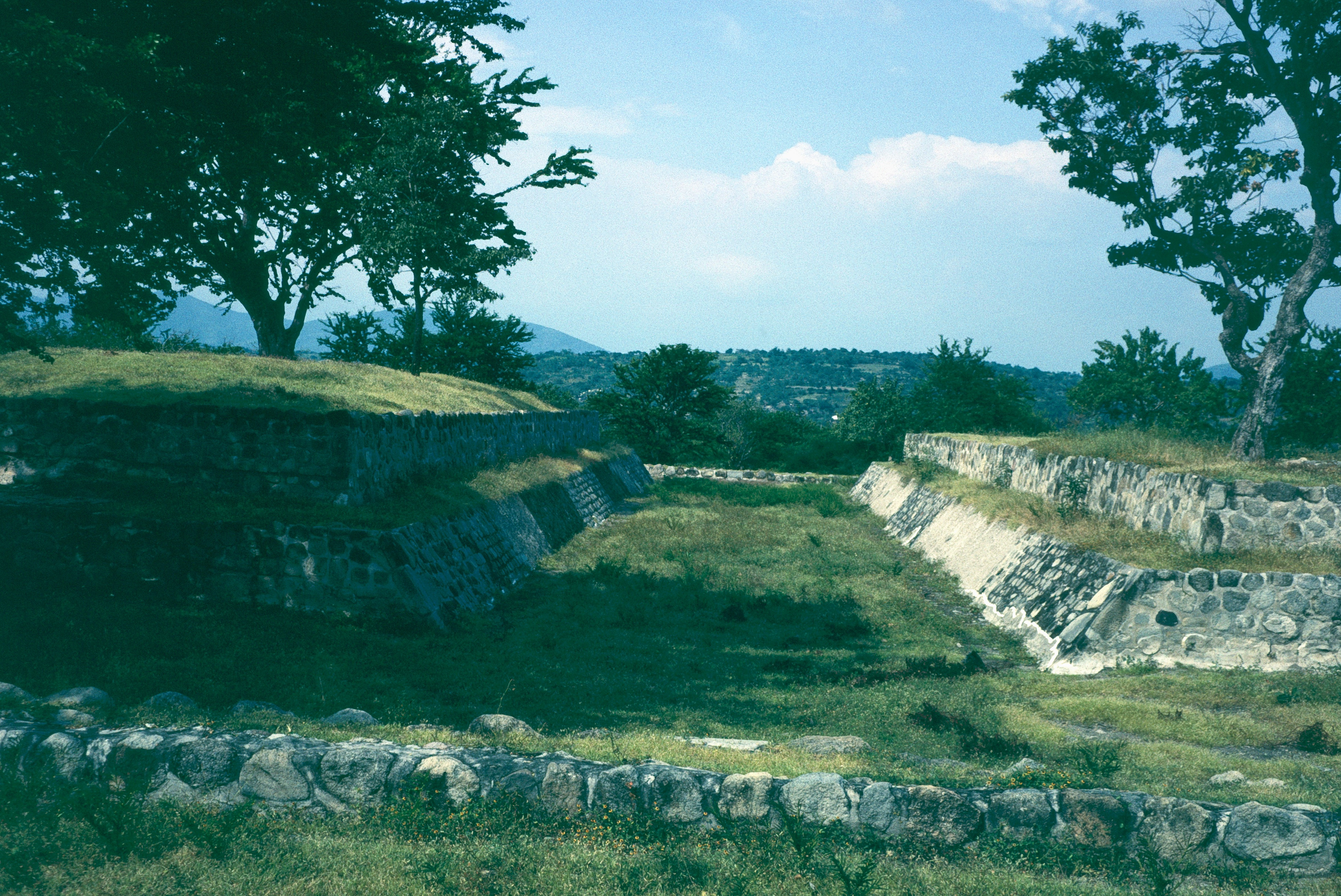 Coatetelco, Morelos, Mexico: ball court